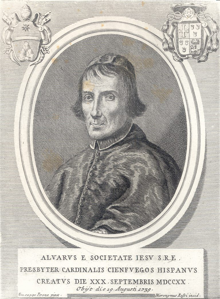 Card. Álvaro Cienfuegos (1657-1739), Spanish Jesuit and Cardinal